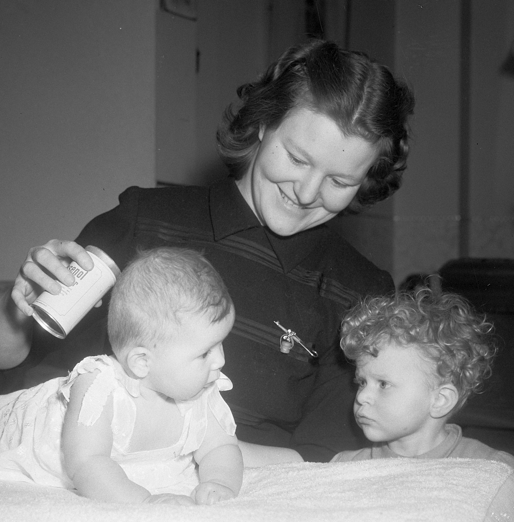 Nel van Vliet with kids